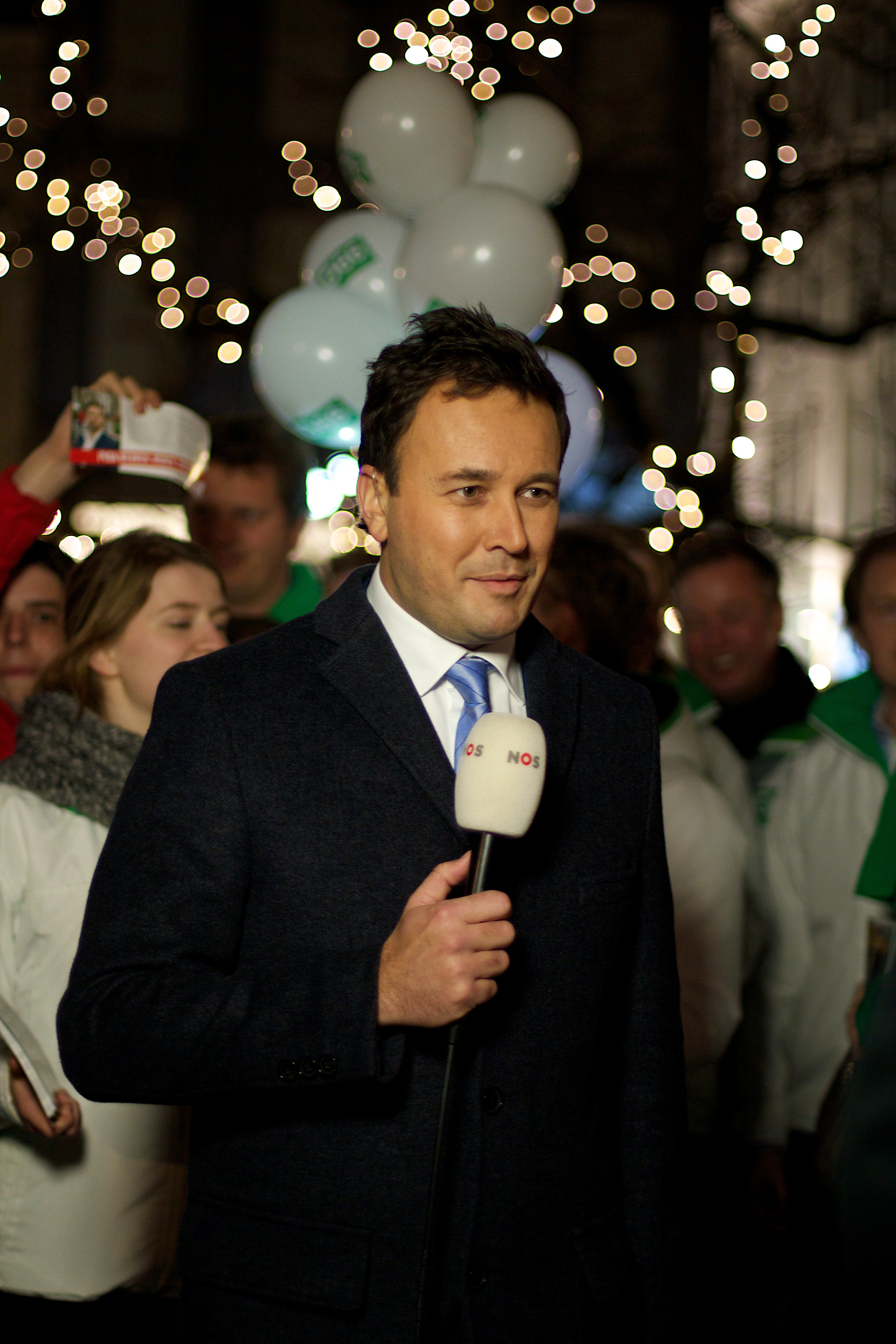 D66 Utrecht kandidaat raadsleden en campagneteam leden bij het NOS journaal van 8 maart 2014 met presentator Xander van der Wulp.